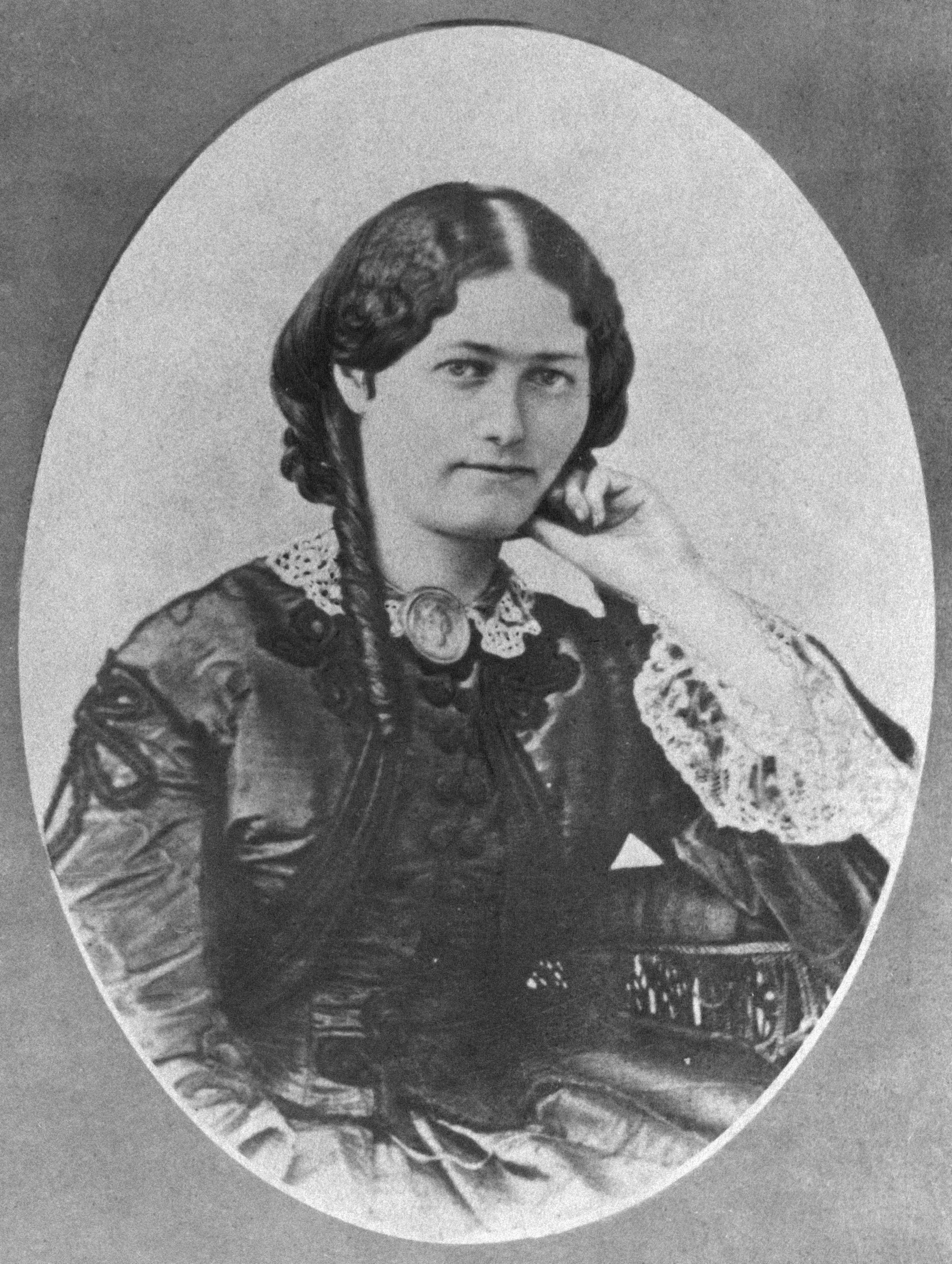 Photograph of Clémence Royer taken by Félix Nadar in 1865. This image derived from International Museum of Women page which credits Bibliothèque Marguerite Durand, Paris. The picture is included as Fig 3 of Hardy (1997) which credits the Félix Nadar collection in the Bibliothèque Nationale n.a.f. 24285 and notes that it first appeared in print in 1895 in an article in the Revue Encyclopédie